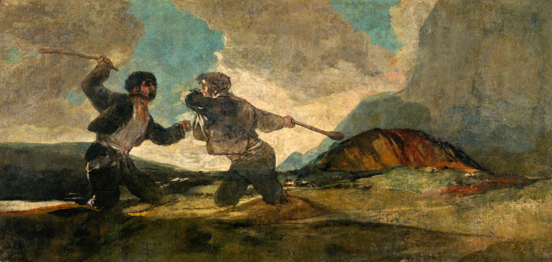 This painting is part of the "Black Paintings" series and depicts two men with cudgels fighting